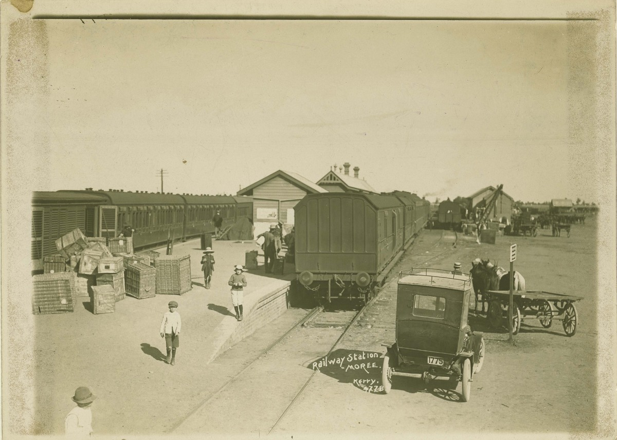 Moree Railway Station Dated: c.1911 Digital ID: 17420_a014_a014000668 Rights: This image is part of our "Moments in Time" blog series where we ask you to help us date the photos or identify the location where the photo was taken. If you can help with this image please head over to the post at our Archives Outside blog. We'd love to hear from you if you use our photos. Many other photos in our collection are available to view and browse on our website using Photo Investigator.